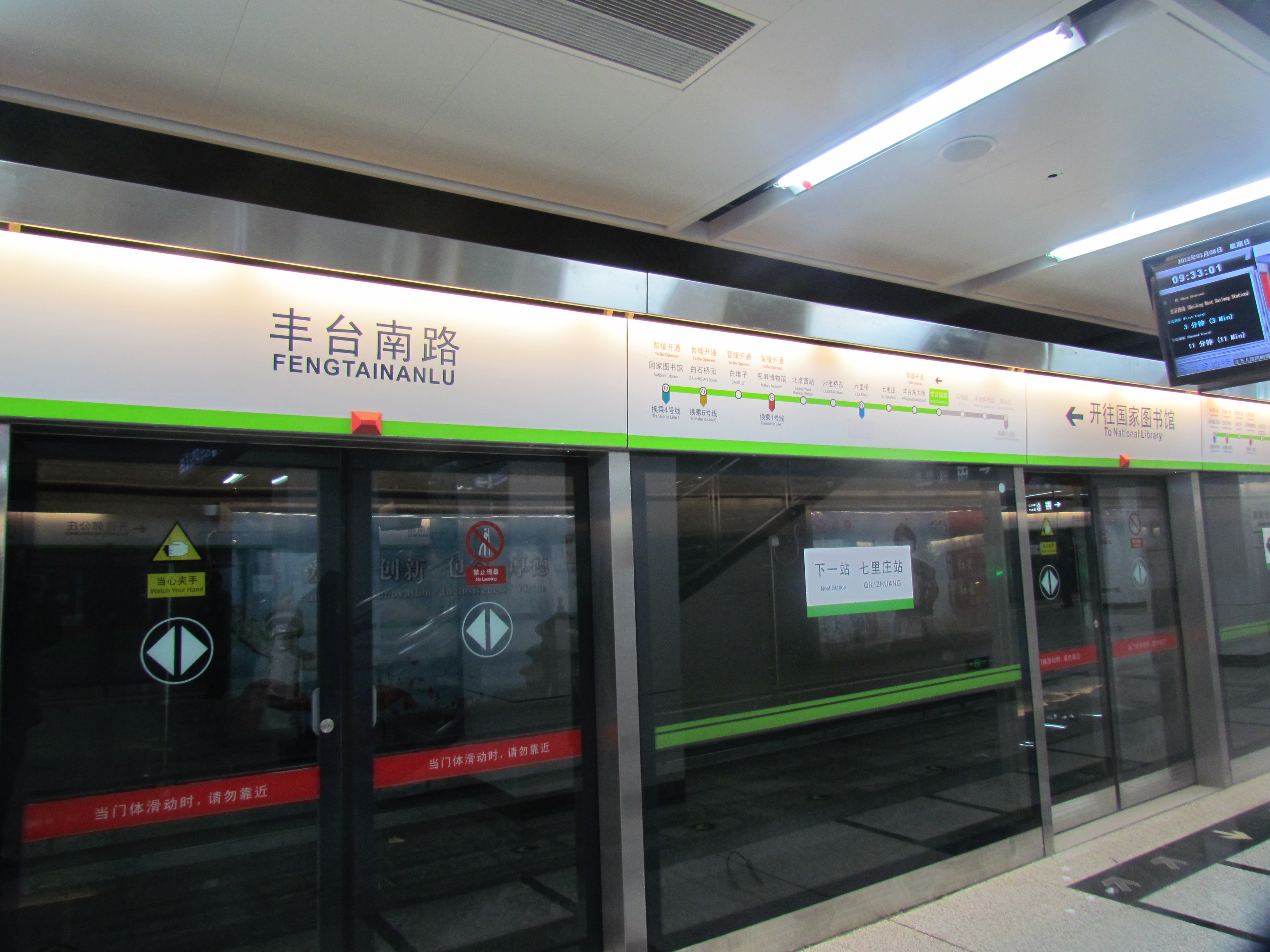 The platform of FENGTAINANLU Station, Line 9, Beijing Subway.